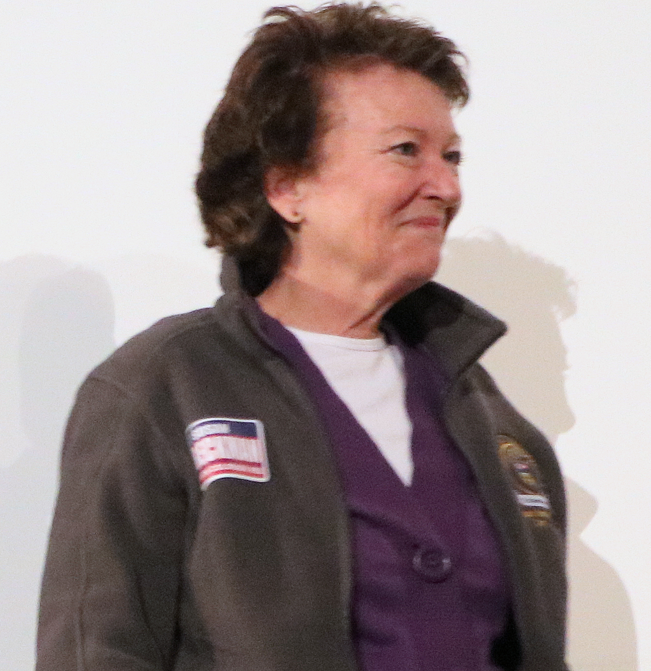 Kim Ransom, a politician from Colorado.